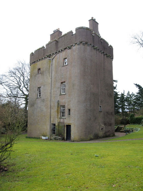 Cranshaws Castle. An old old peel tower, the stronghold of the Douglas family. Said to be haunted by a brownie (invisible goblin)